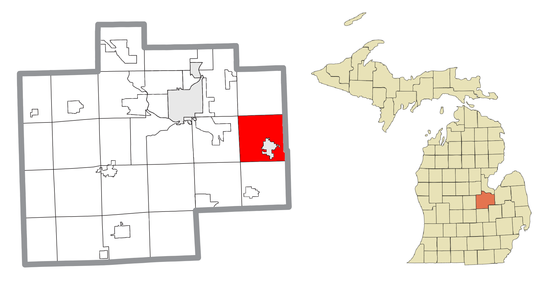 Frankenmuth, MI